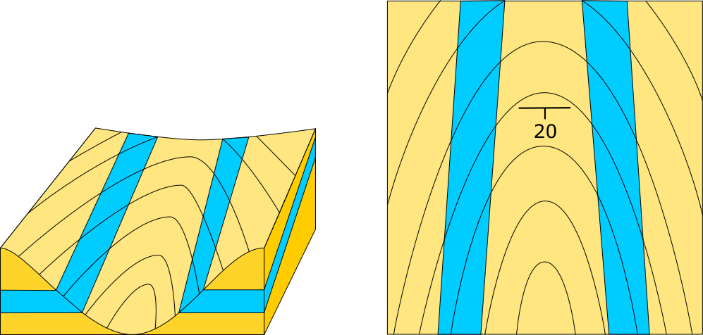 Layers inclined downstream with dip equal to the valley gradient: produces a pattern of parallel traces on both slopes of the valley and therefore no V is formed